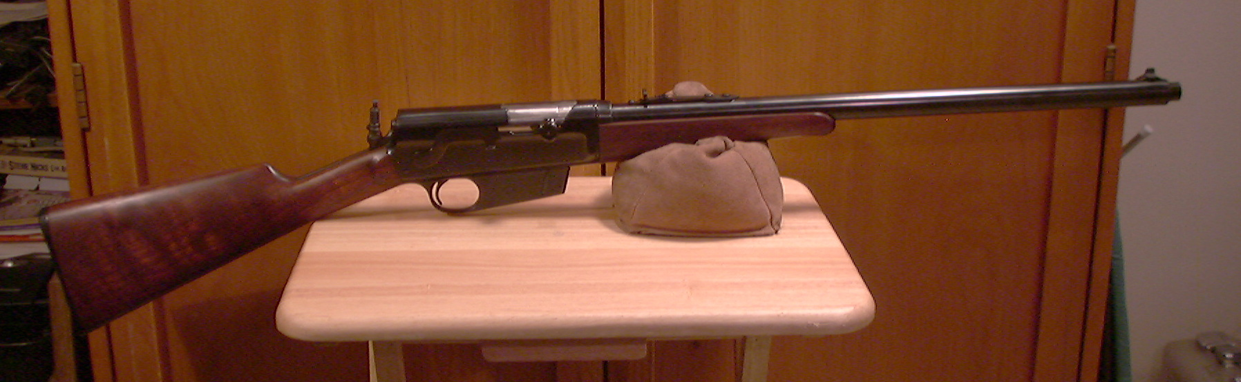 Remington Model 8 Rifle chambered in .32 Remington